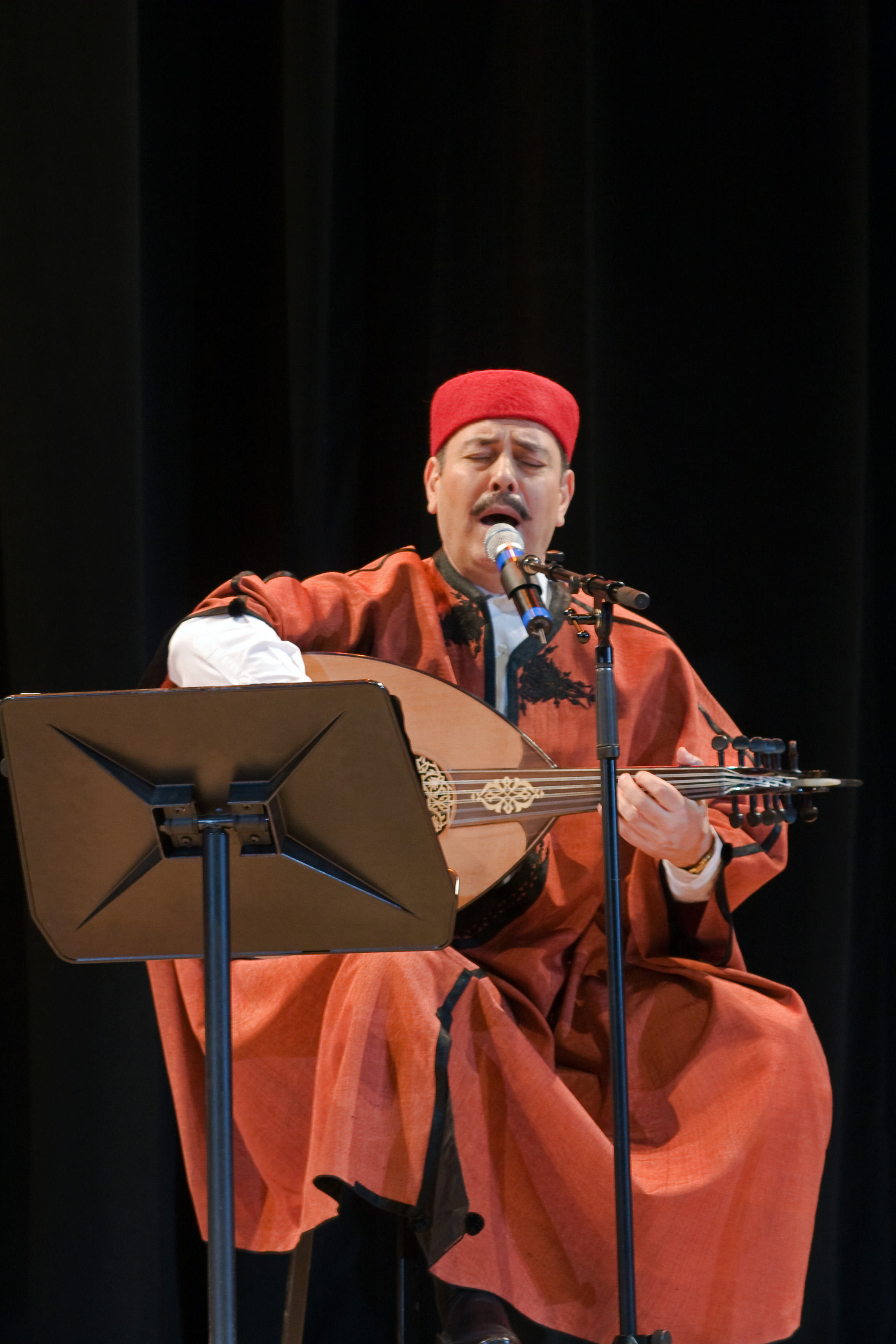 Lotfi Bouchnak during an Andalusian Music Festival